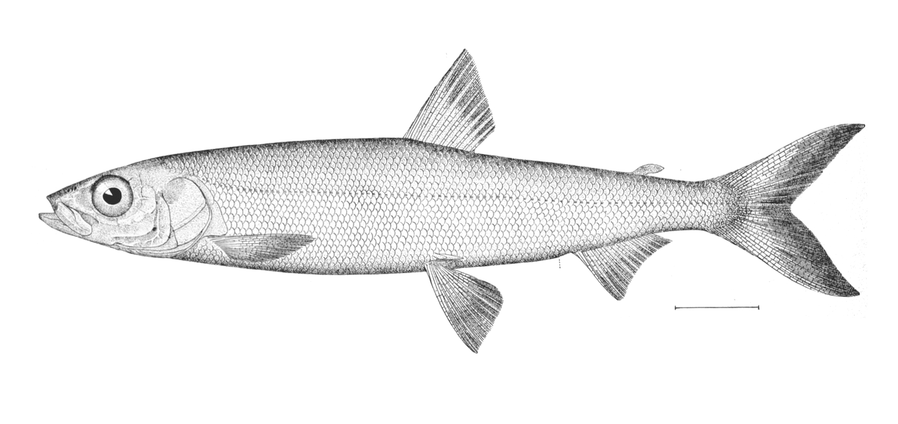 The moon-eye or cisco of Lake Michigan (Coregonus hoyi). The specimen #32162, U. S. National Museum, collected at Seneca Lake, New York, by Prof. H. L. Smith in June 1878.